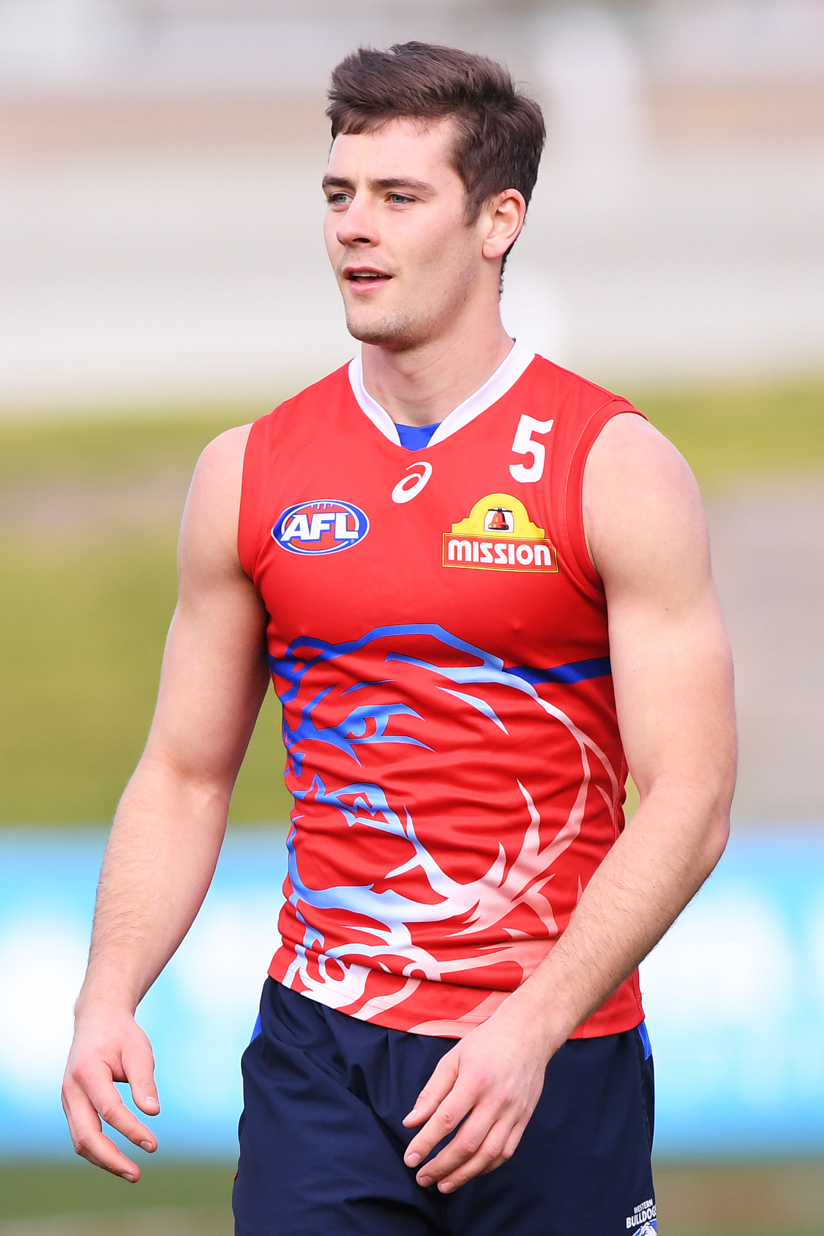 Josh Dunkley of the Western Bulldogs during Western Bulldogs training on 7 August 2018 at Whitten Oval in Melbourne, Victoria.